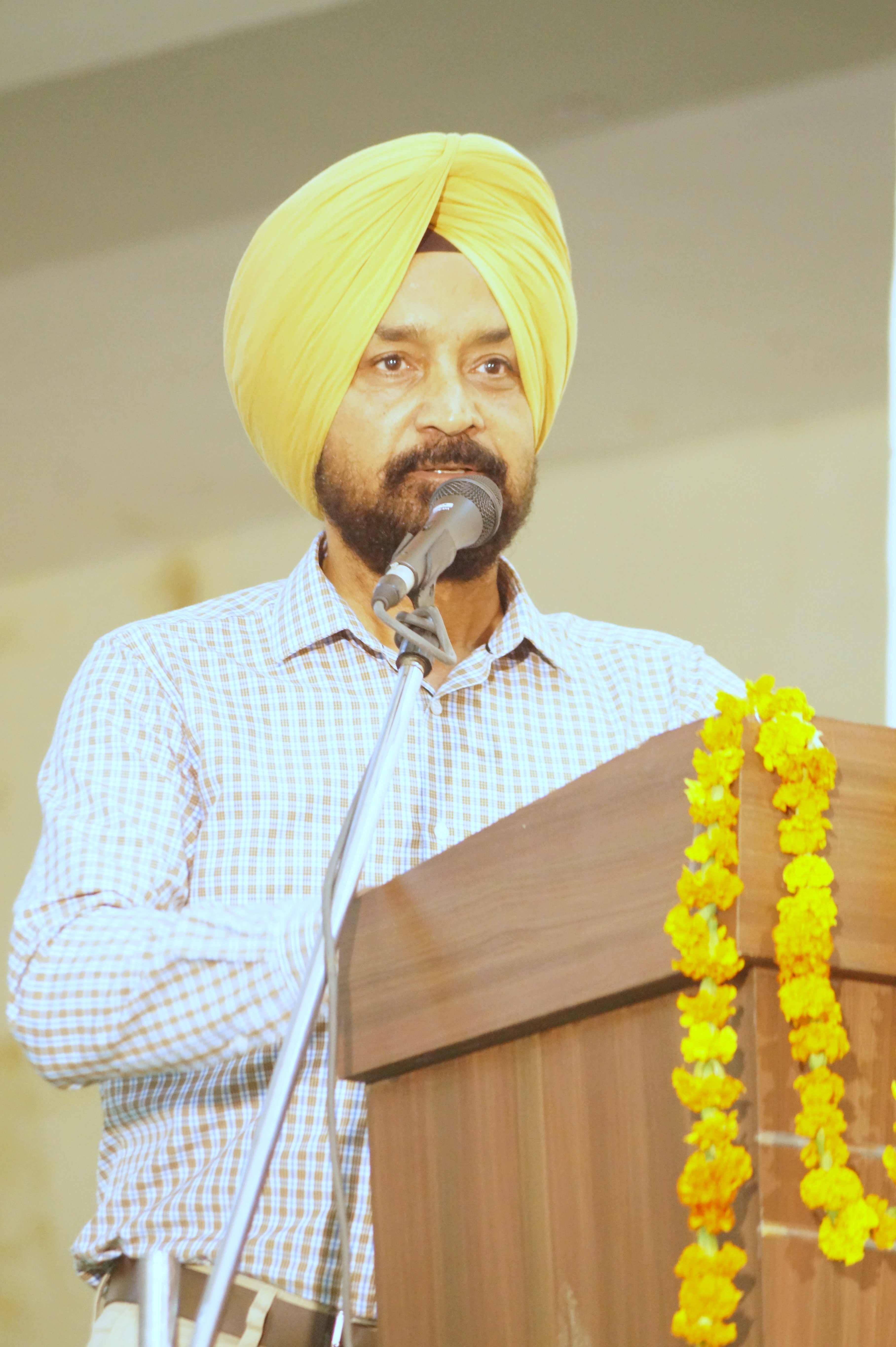 Punjabi Poet